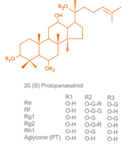 โครงสร้างทางเคมีของจินเซนโนไซด์ในกลุ่มของ Protopanaxatriol